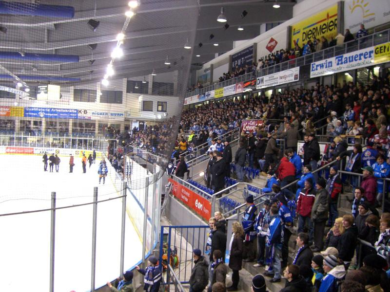 Inside view of the municipal ice rink in Straubing, Germany